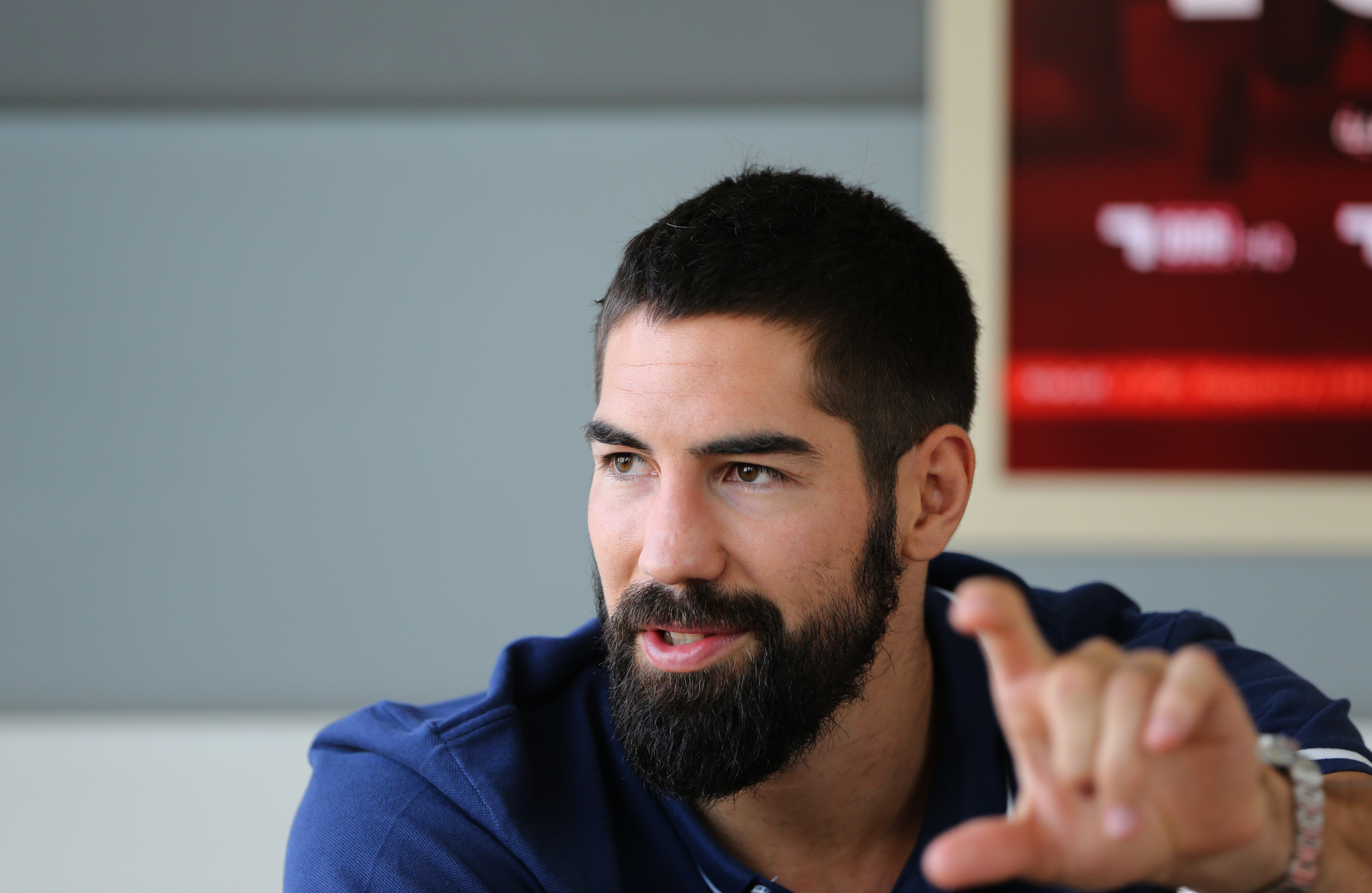 PSG Handball's French player Nikola Karabatic during his team's training stint in Doha. Pic by Vinod Divakaran